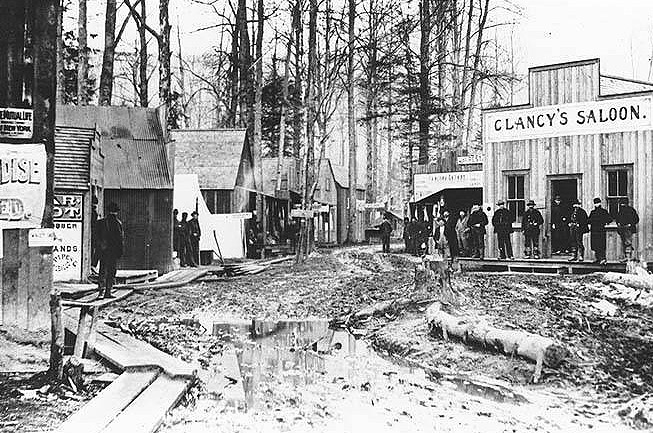 Muddy street scene, Skagway, Alaska, October 1897, during the Klondike Gold Rush.